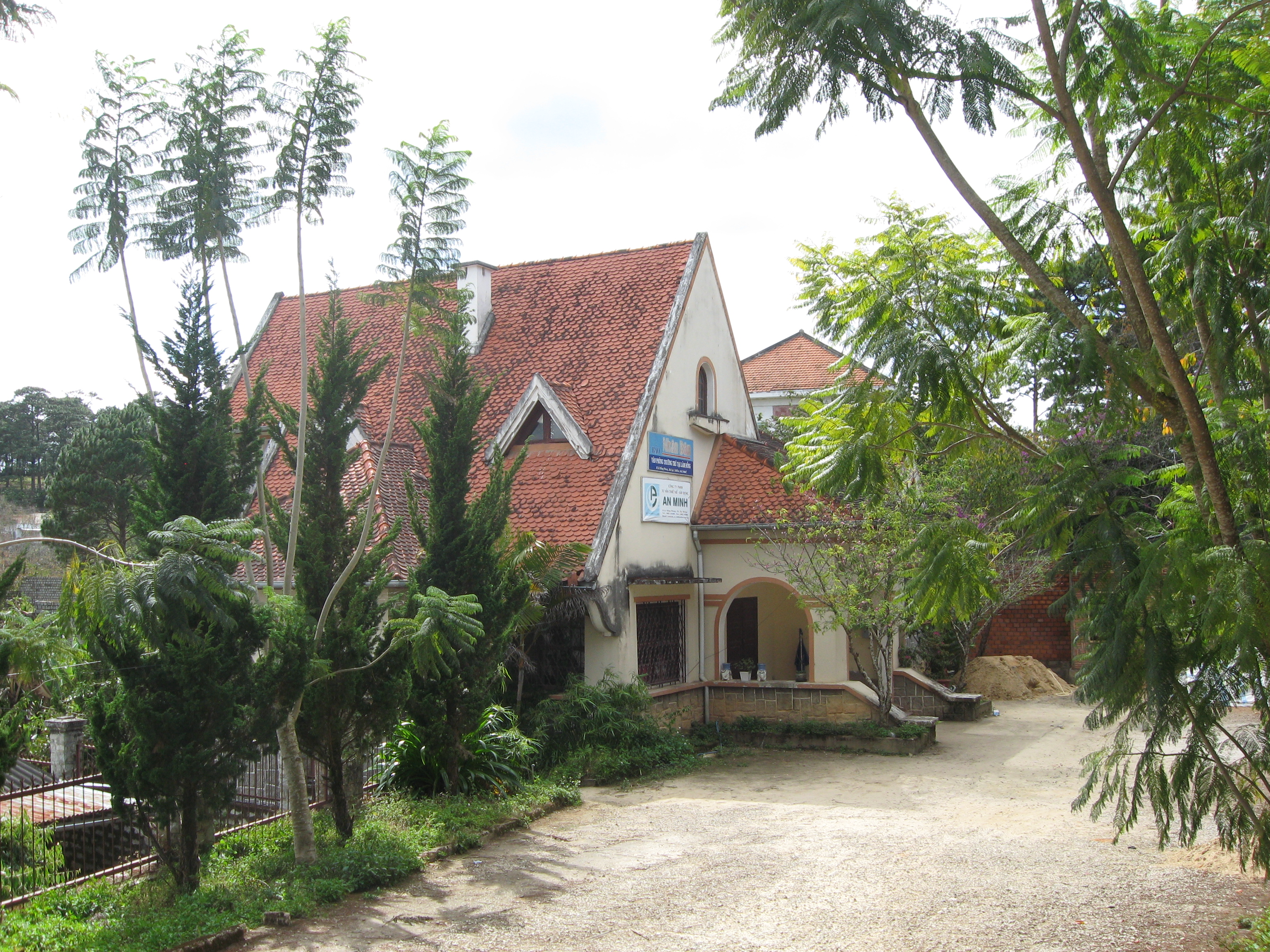 Bao Nhan Dan, Le Hong Phong Street